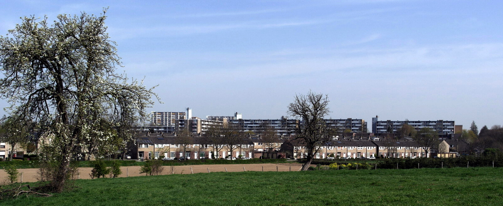 Maastricht, the Netherlands. View across the fields of the southwestern neighbourhood of Daalhof.